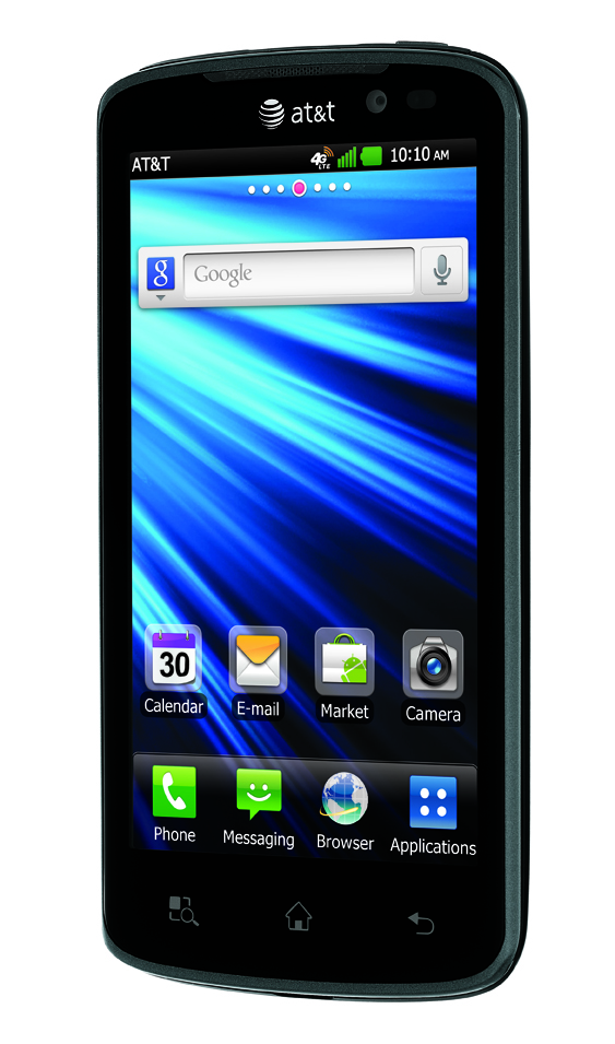 LG Electronics, Optimus LTE, USA release